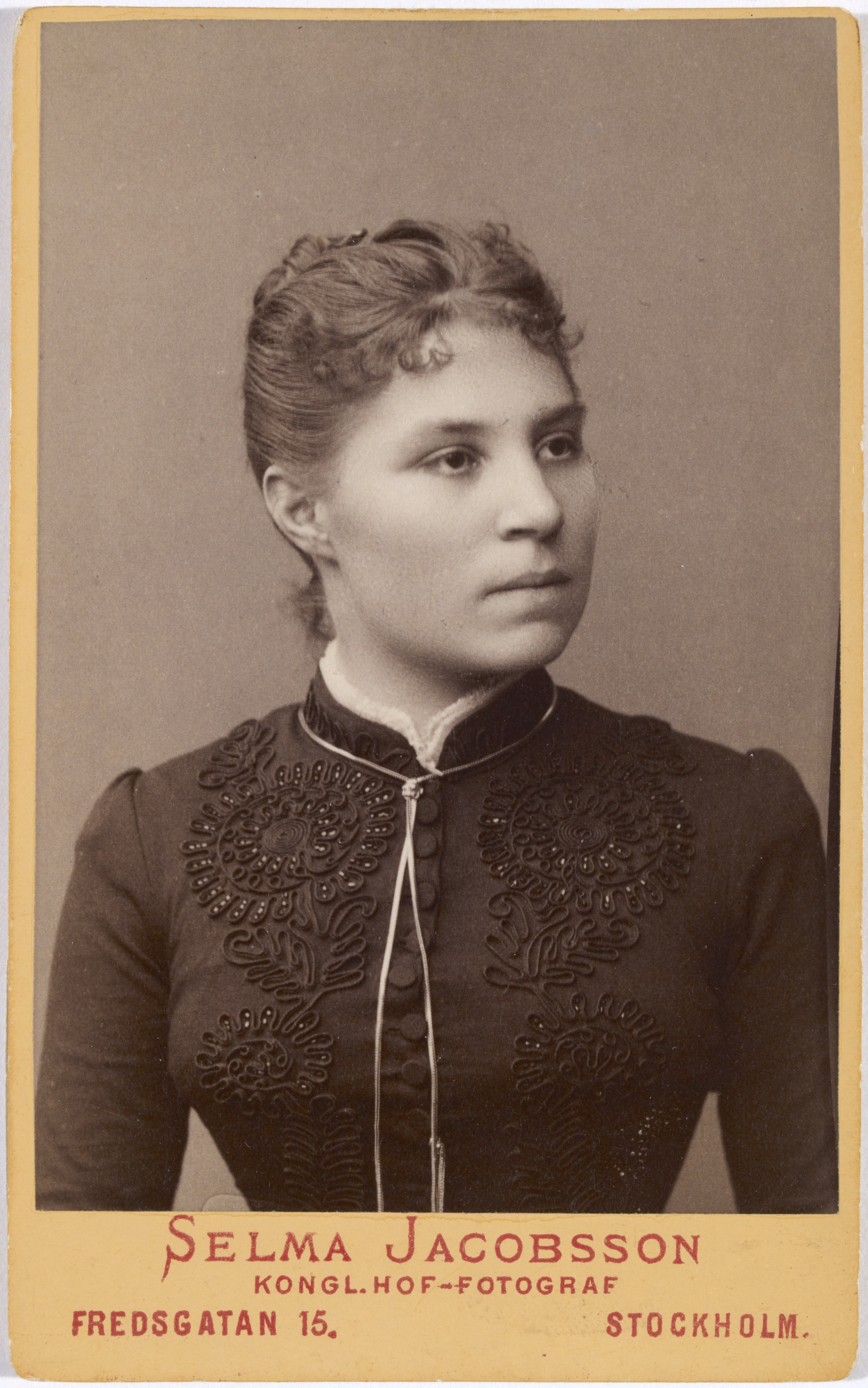 Photograph of the Finnish teacher Hanna Andersin (1861–1914).